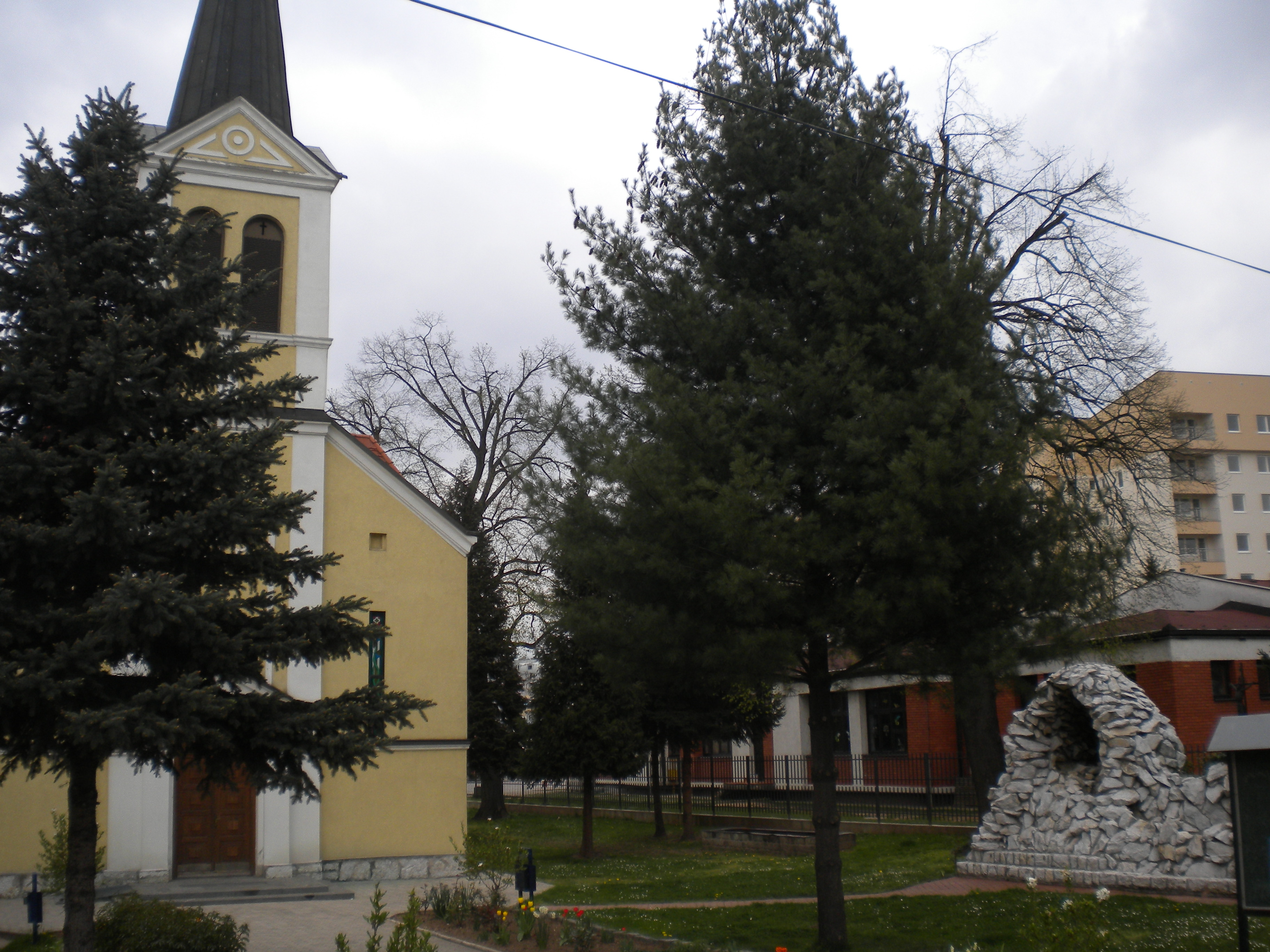 Church of the Assumption (Ilidža)